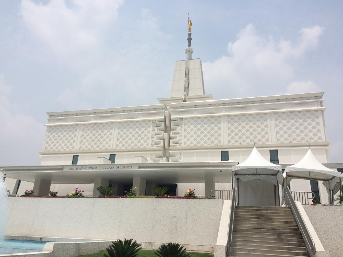 Photo of the Mexico City Mexico Temple of The Church of Jesus Christ of Latter-day Saints.